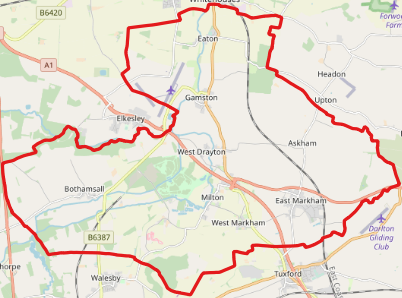 Map of the East Markham ward of Bassetlaw. This map may be incomplete, and may contain errors. Don't rely solely on it for navigation.